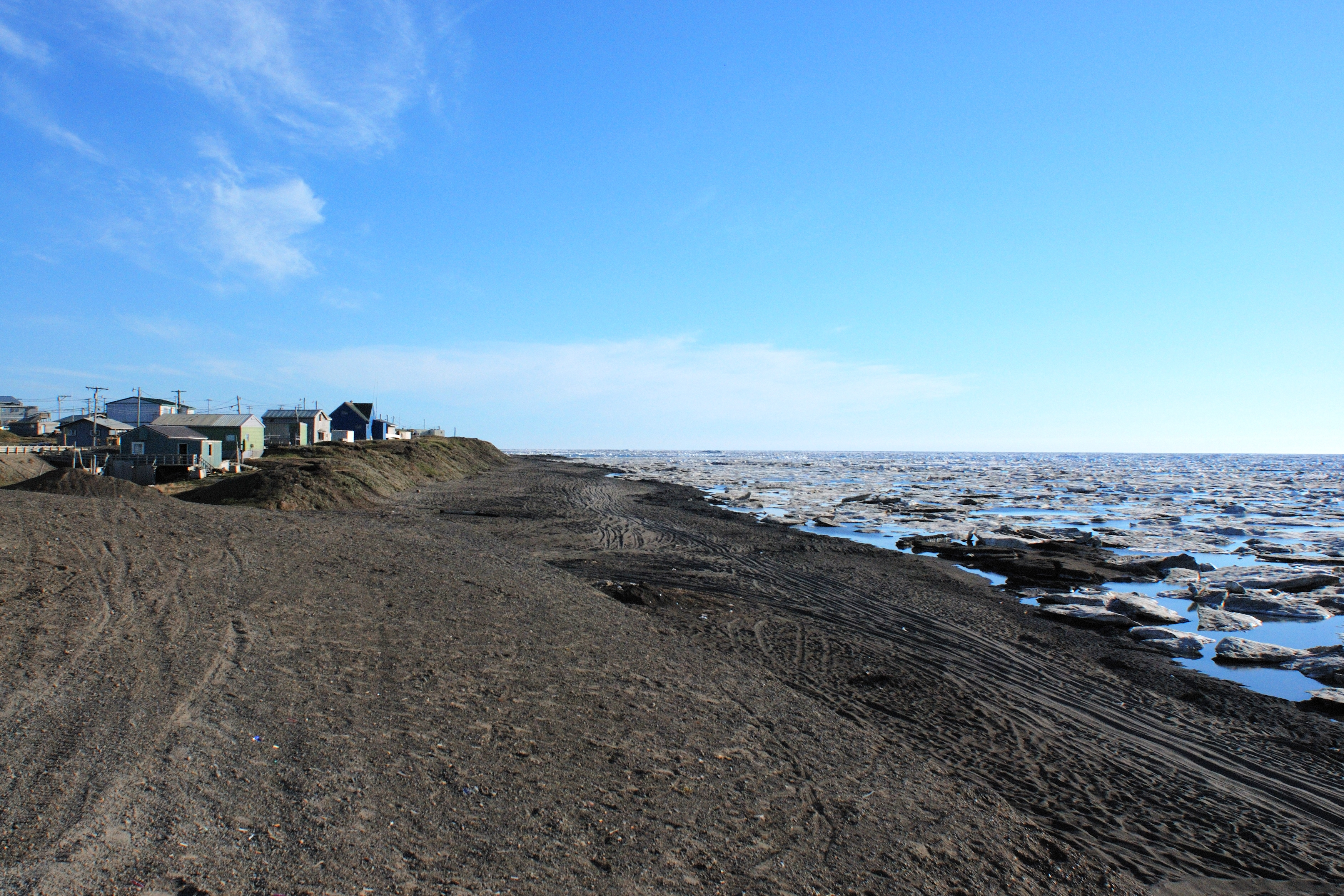 Arctic Shore at Barrow Alaska